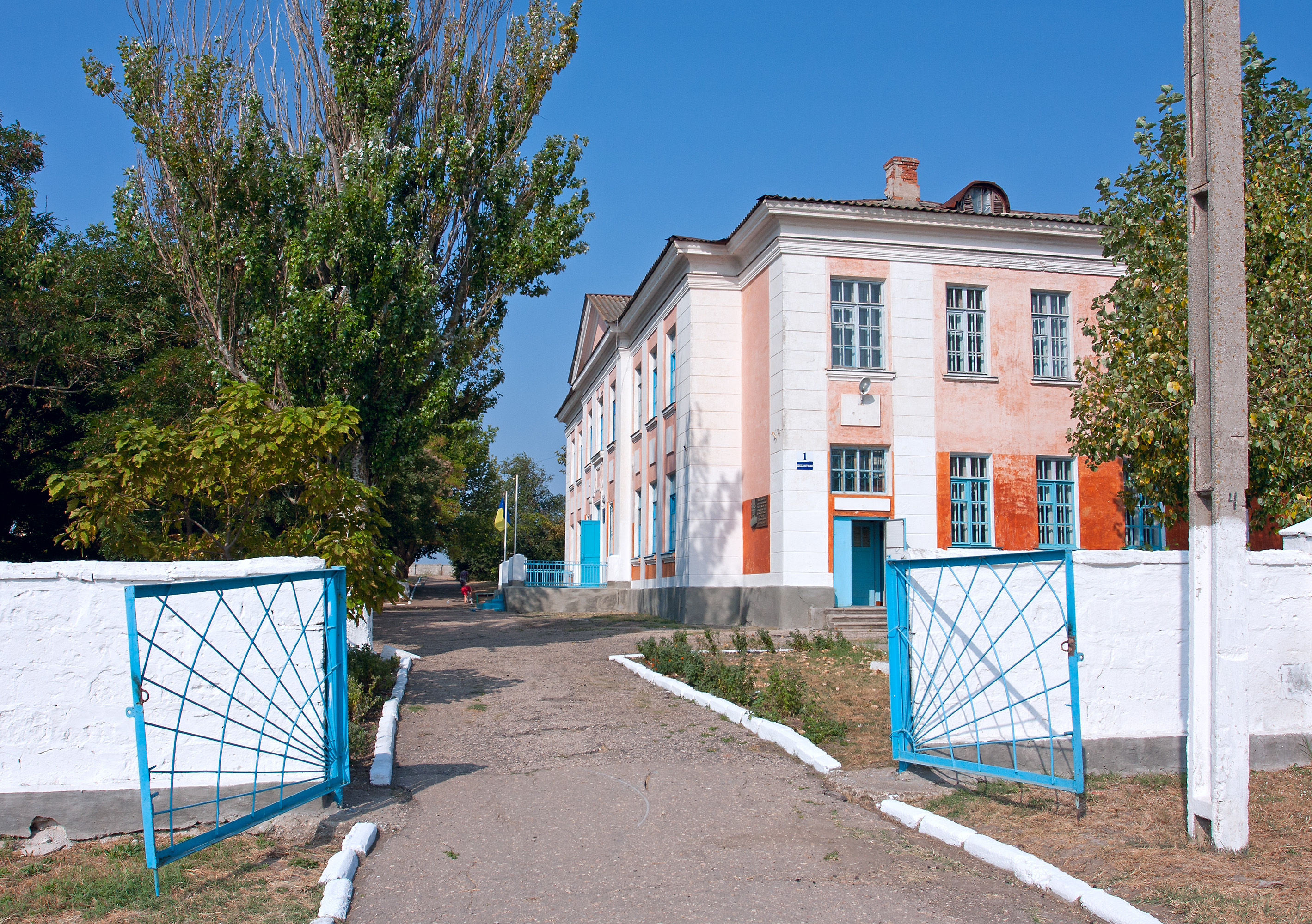 Kerch, School #21